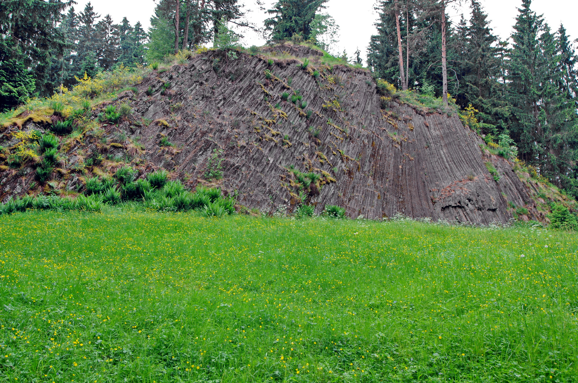 Natural monument Rotava in Sokoliv District, Czech Republic